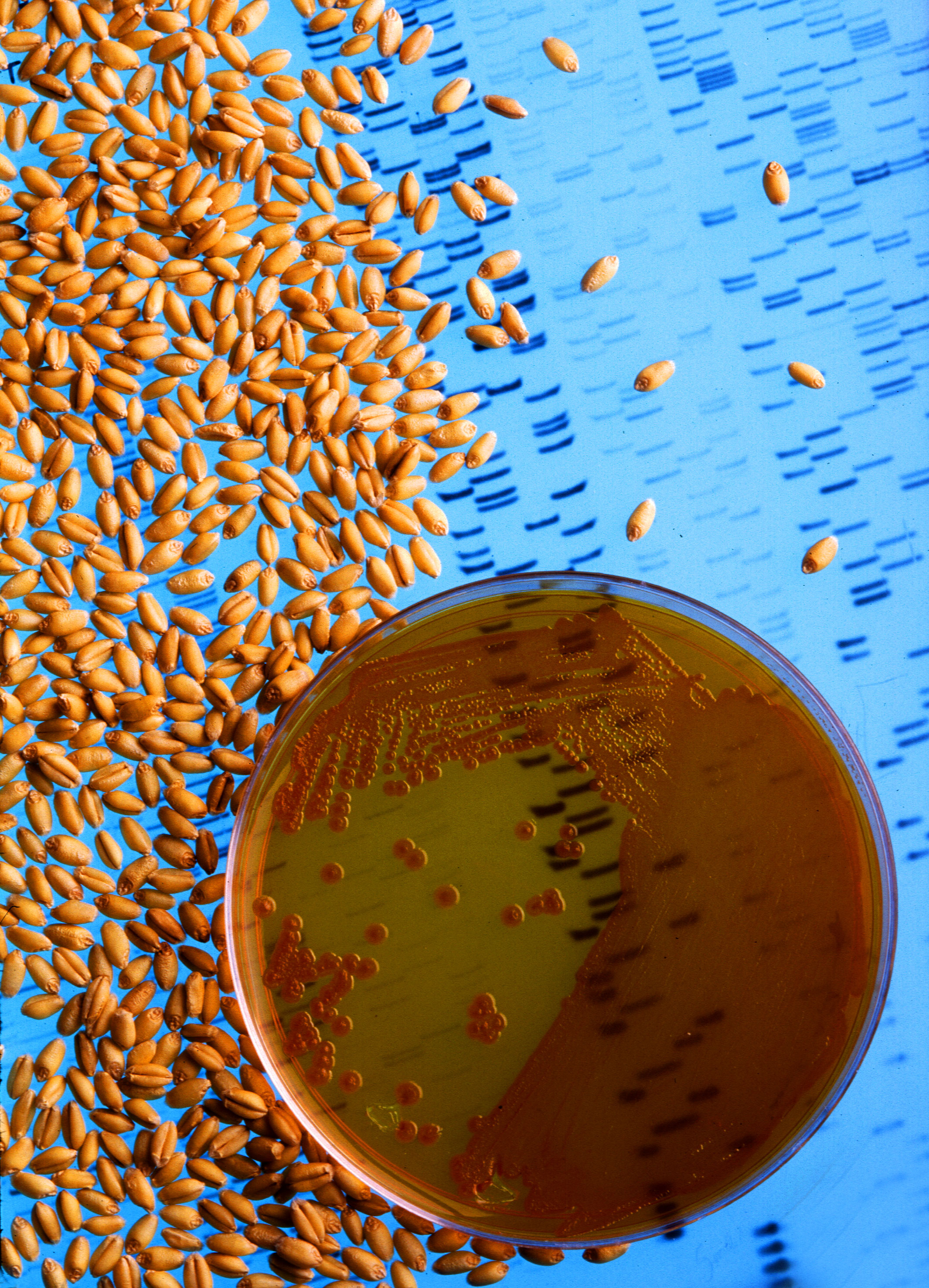 "Wheat seeds treated with bacteria like those colonized in this petri dish are nearly immune to wheat take-all, a root-destroying fungal disease. The sequencing gel in the background bears the genetic code for bacterial enzymes that synthesize natural antibiotics."